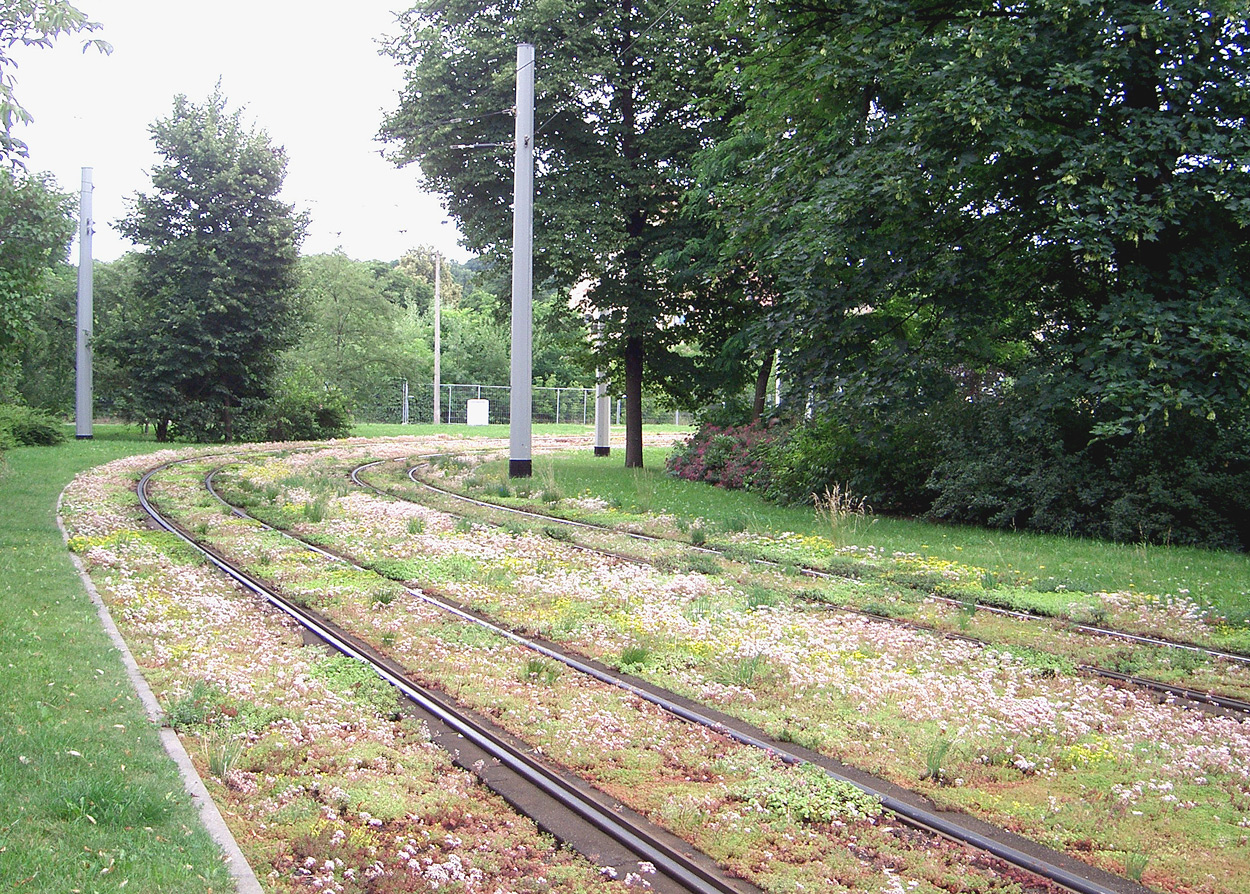 A variation on lawn track with low growing plants being used to delineate the tram's swept path. As seen in Zwickau, Germany. Photographed by SP Smiler